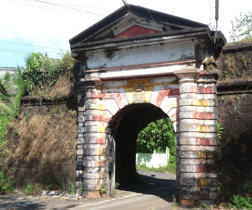 Rachol Church new picture